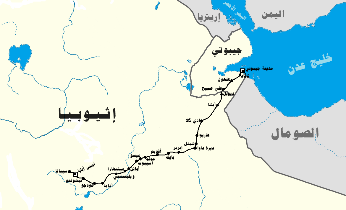 The map of Addis Ababa-Djibouti Railway.